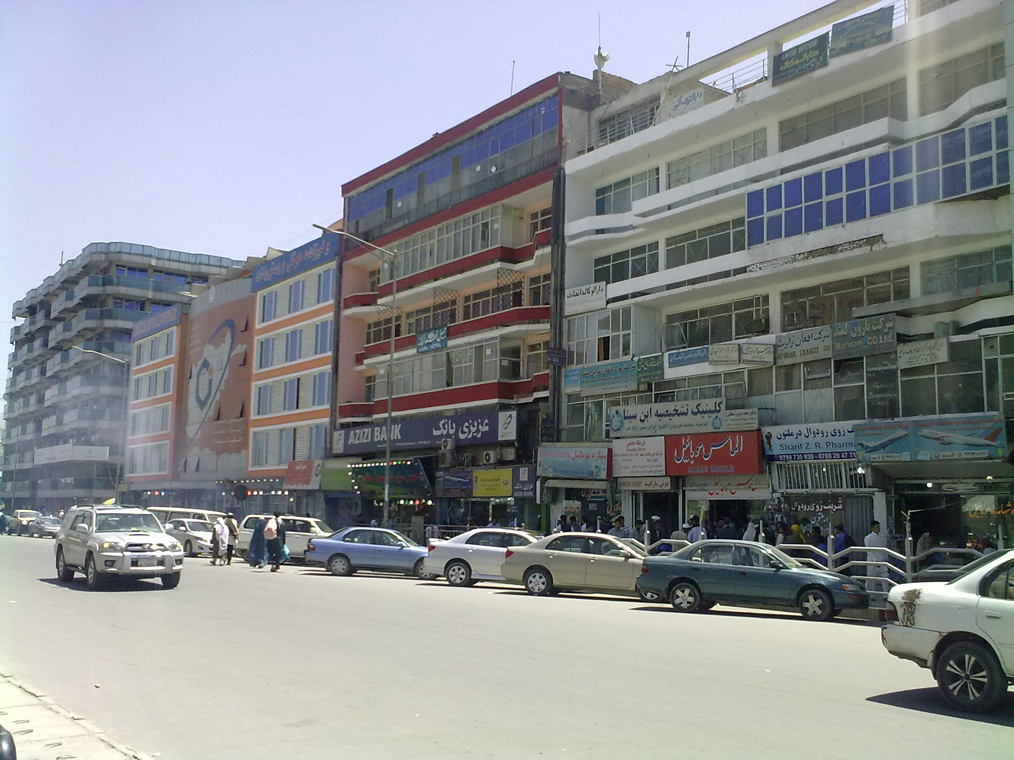 Street scene in Kabul City